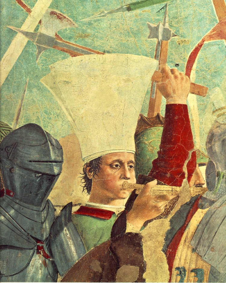 PIERO della FRANCESCA Battle between Heraclius and Chosroes Fresco, 329 x 747 cm San Francesco, Arezzo